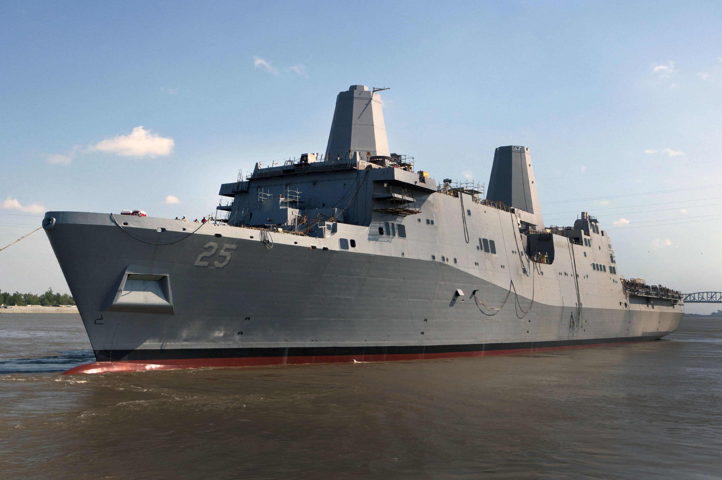 120414-N-ZZ999-001 AVONDALE, La. (April 14, 2012) The amphibious transport dock ship Pre-Commissioning Unit (PCU) Somerset (LPD 25) is launched from the Huntington Ingalls Industries Avondale Shipyard. Somerset is the ninth San Antonio-class ship and is named in honor of the county where passengers aboard United Airlines flight 93 crashed the hijacked airliner during the Sept. 11, 2001 terrorist attacks on New York and Washington. (U.S. Navy photo courtesy of Huntington Ingalls Industries/Released)